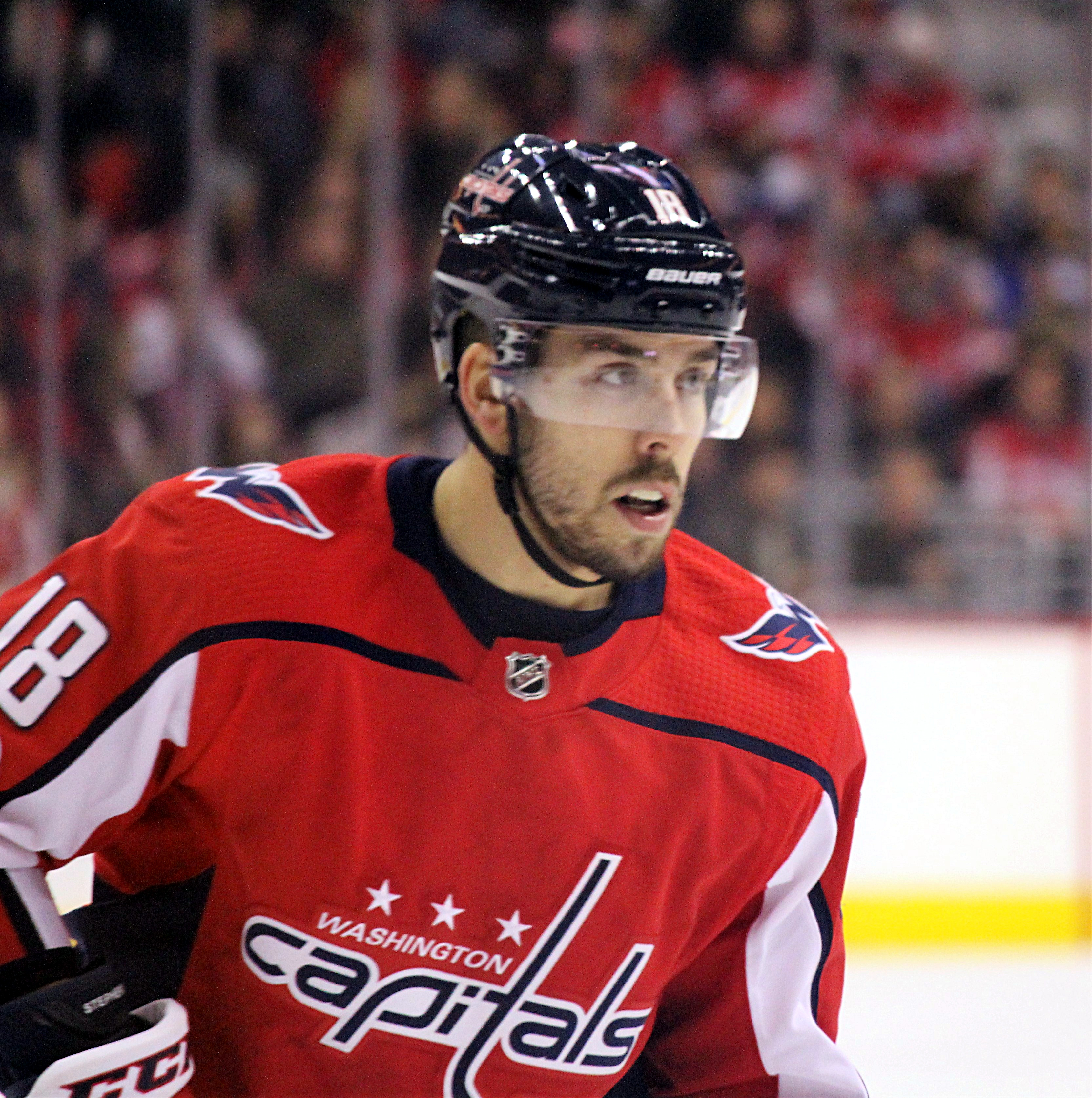 Washington Capitals forward Chandler Stephenson during a game against the Pittsburgh Penguins, November 10, 2017, at Capital One Arena in Washington, D.C.